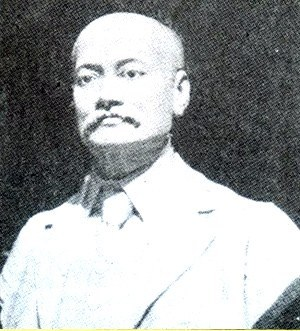 Image of Radha Gobinda Kar (1852-1918)